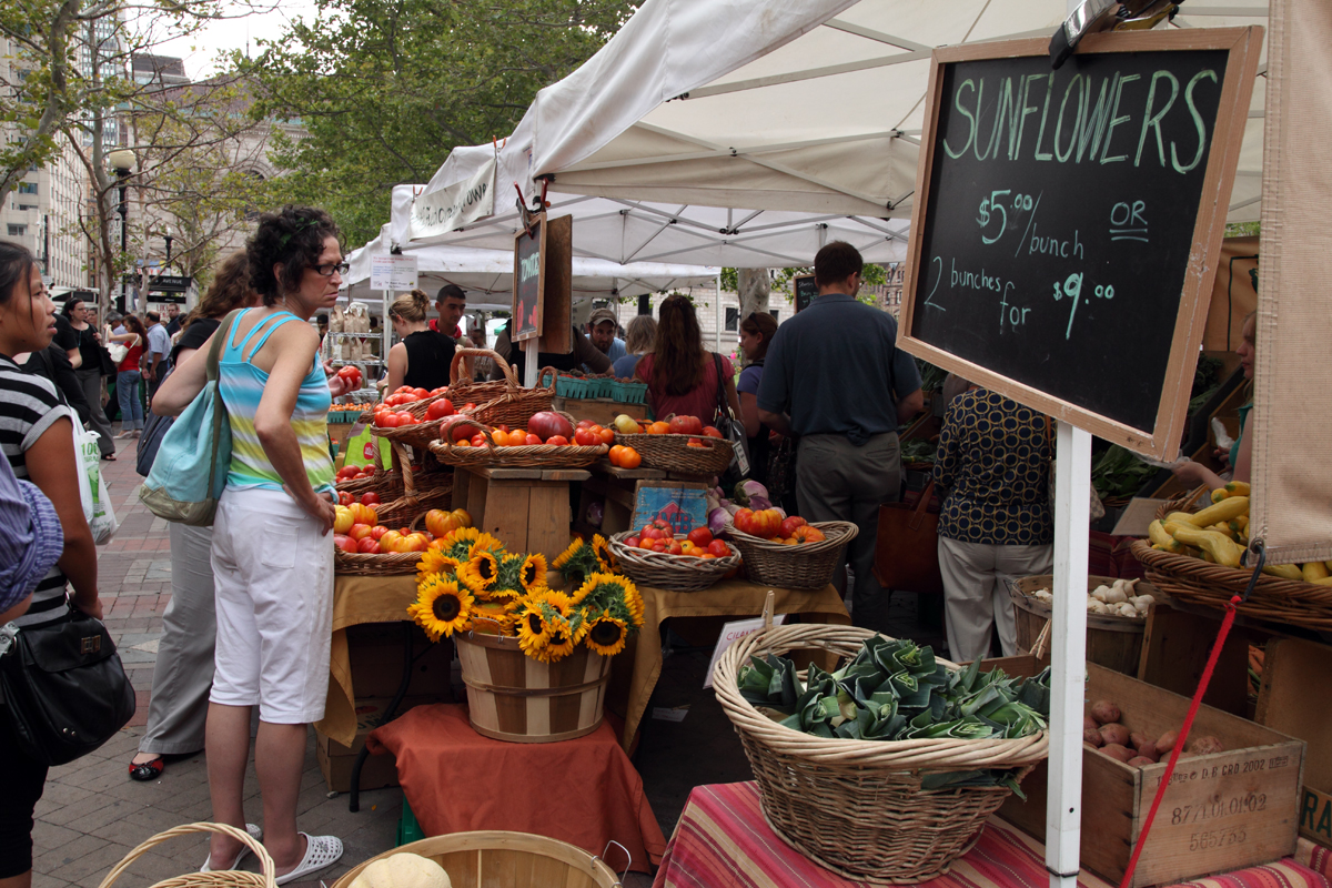 Copley Square Farmer's Market